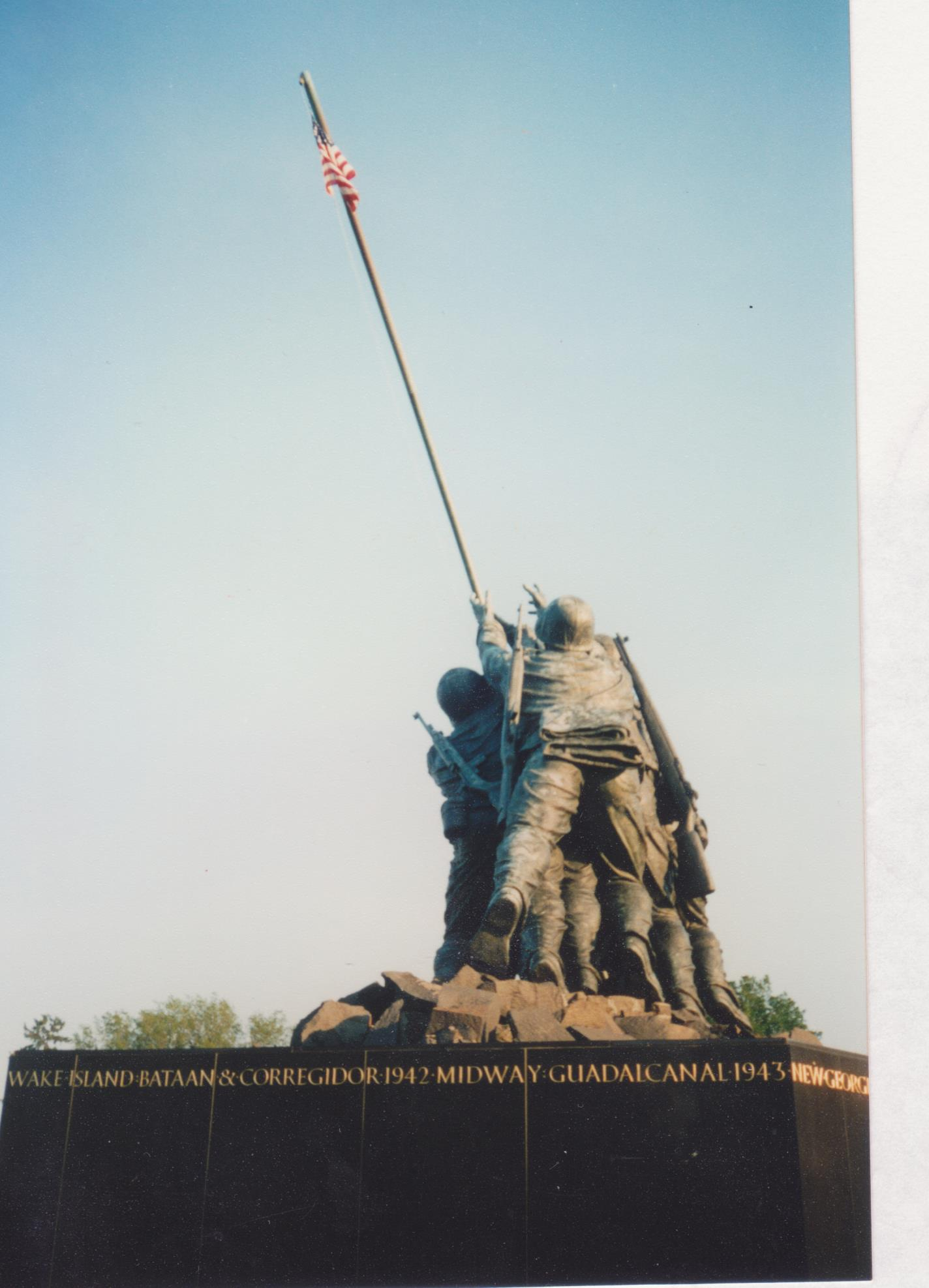 Iwo-jima memorial Washington DC April 1996